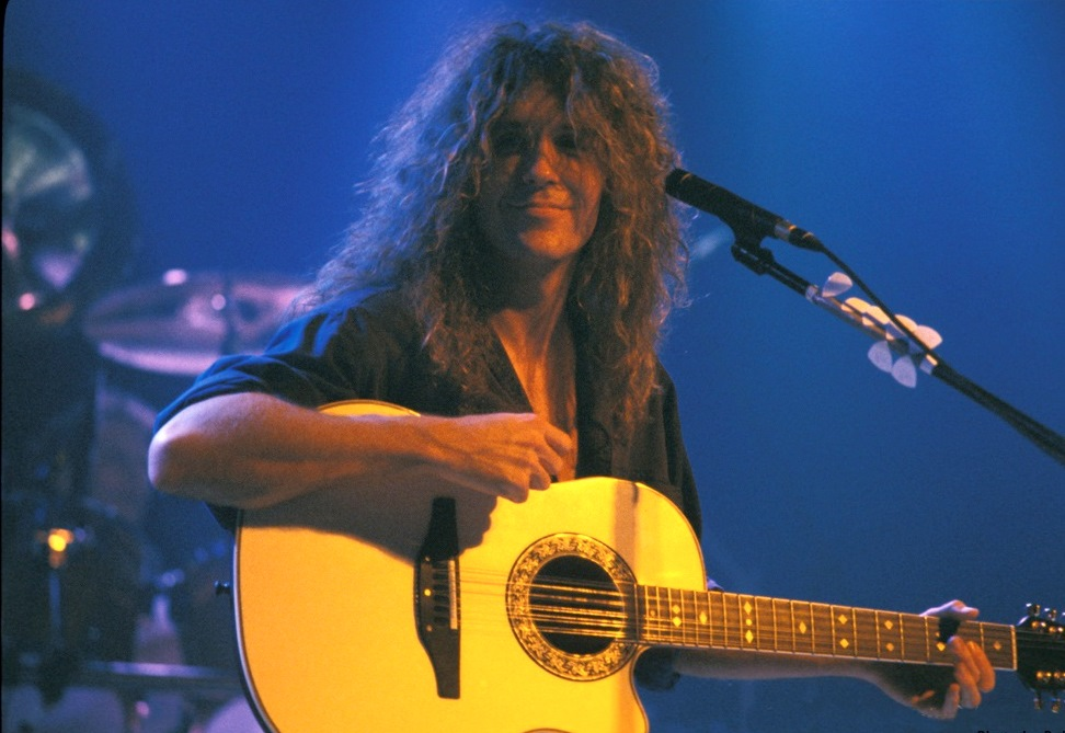 Randy Jackson photo by Robert Geiger